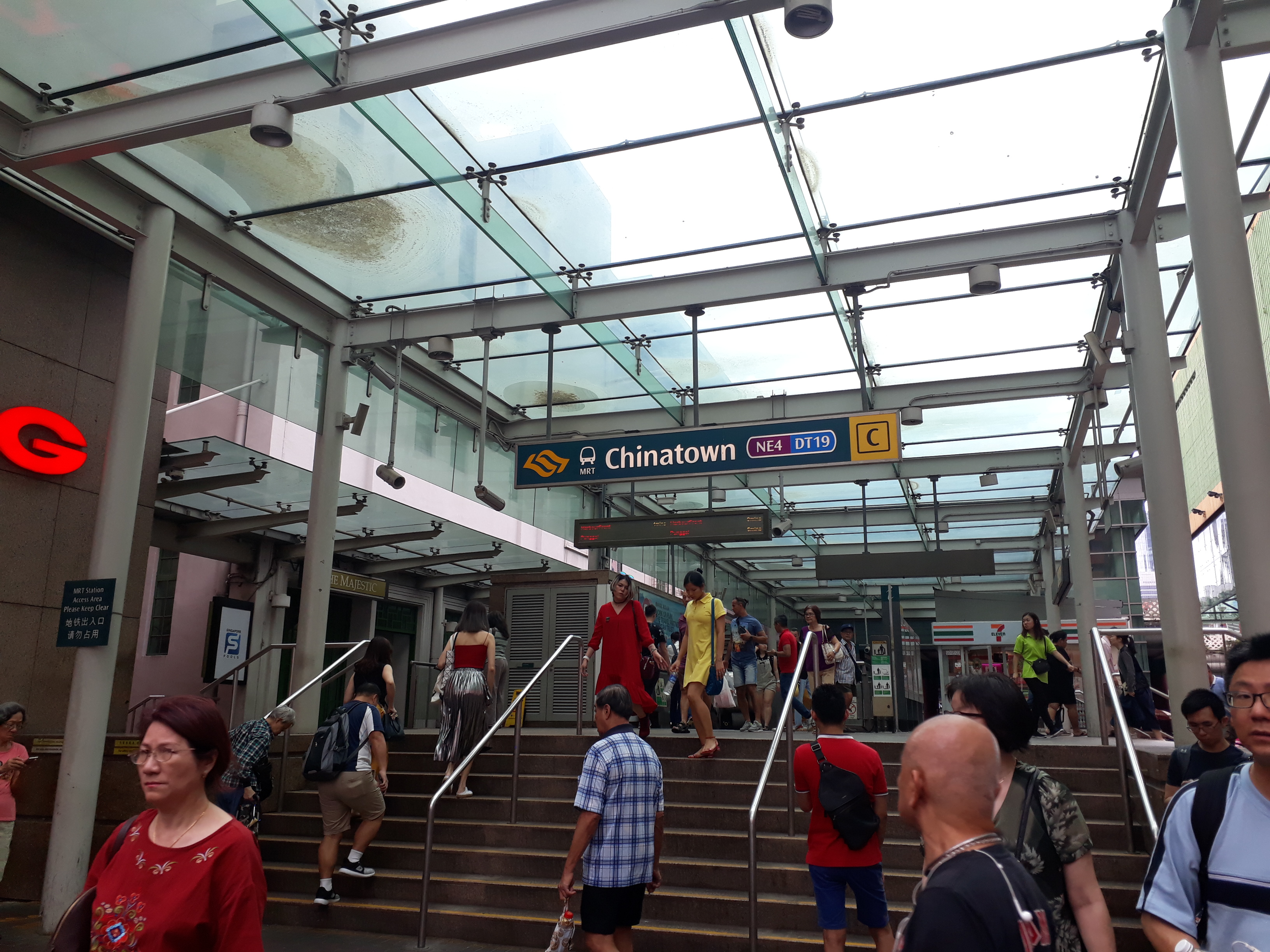 Exit C of Chinatown station